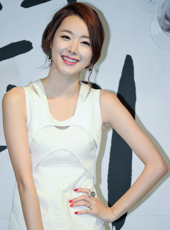 So Yi-hyun at My Shining Girl (KBS Drama, 2012) premiere, on January 4, 2012